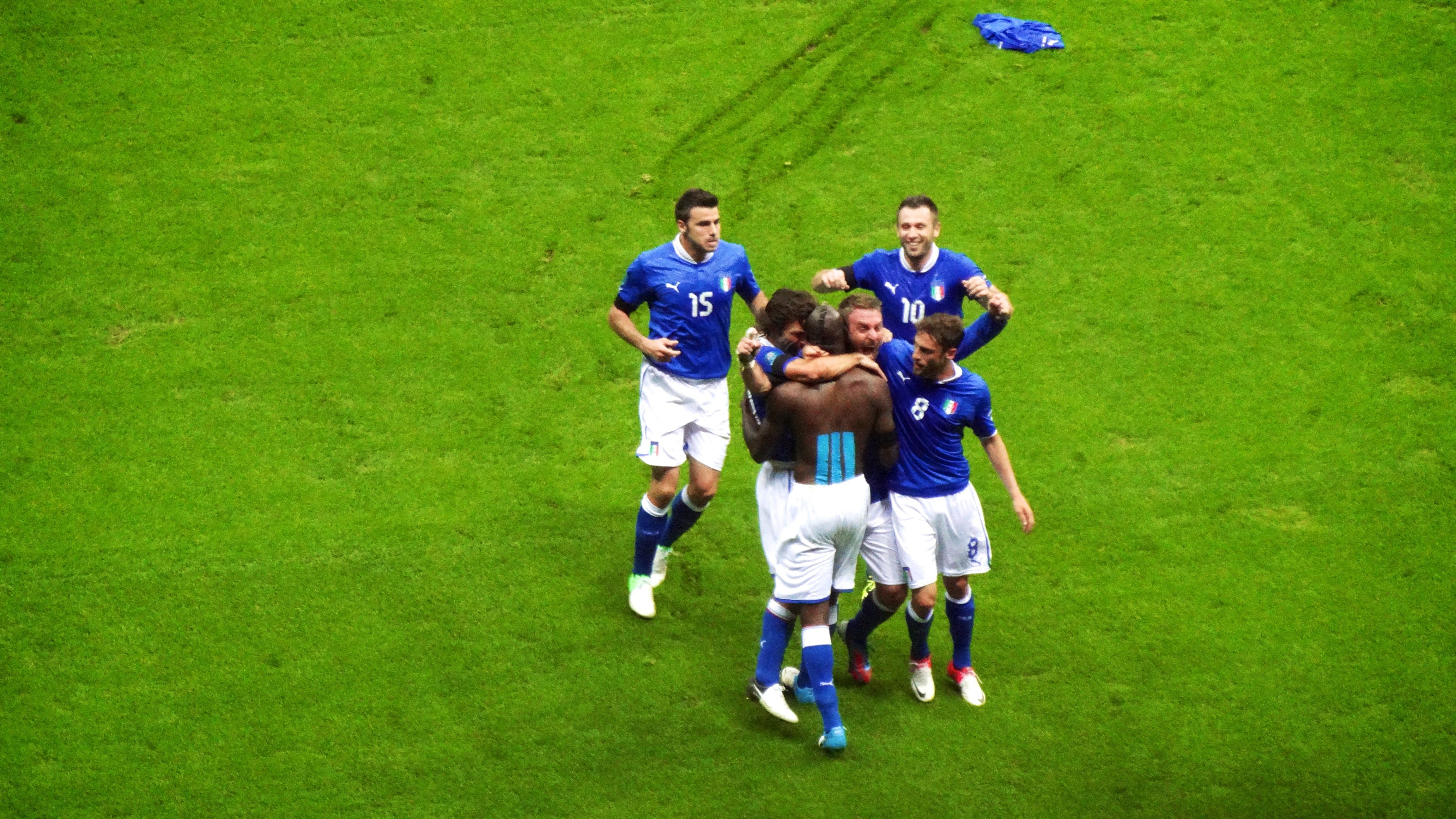 Italian team congratulating Mario Balotelli after his 2nd goal, UEFA Euro 2012.